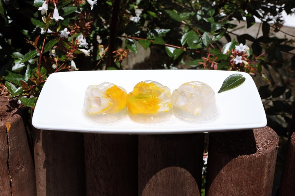 danhobak-sanyak-yanggaeng (sweet jelly with Chinese yam and kabocha squash)